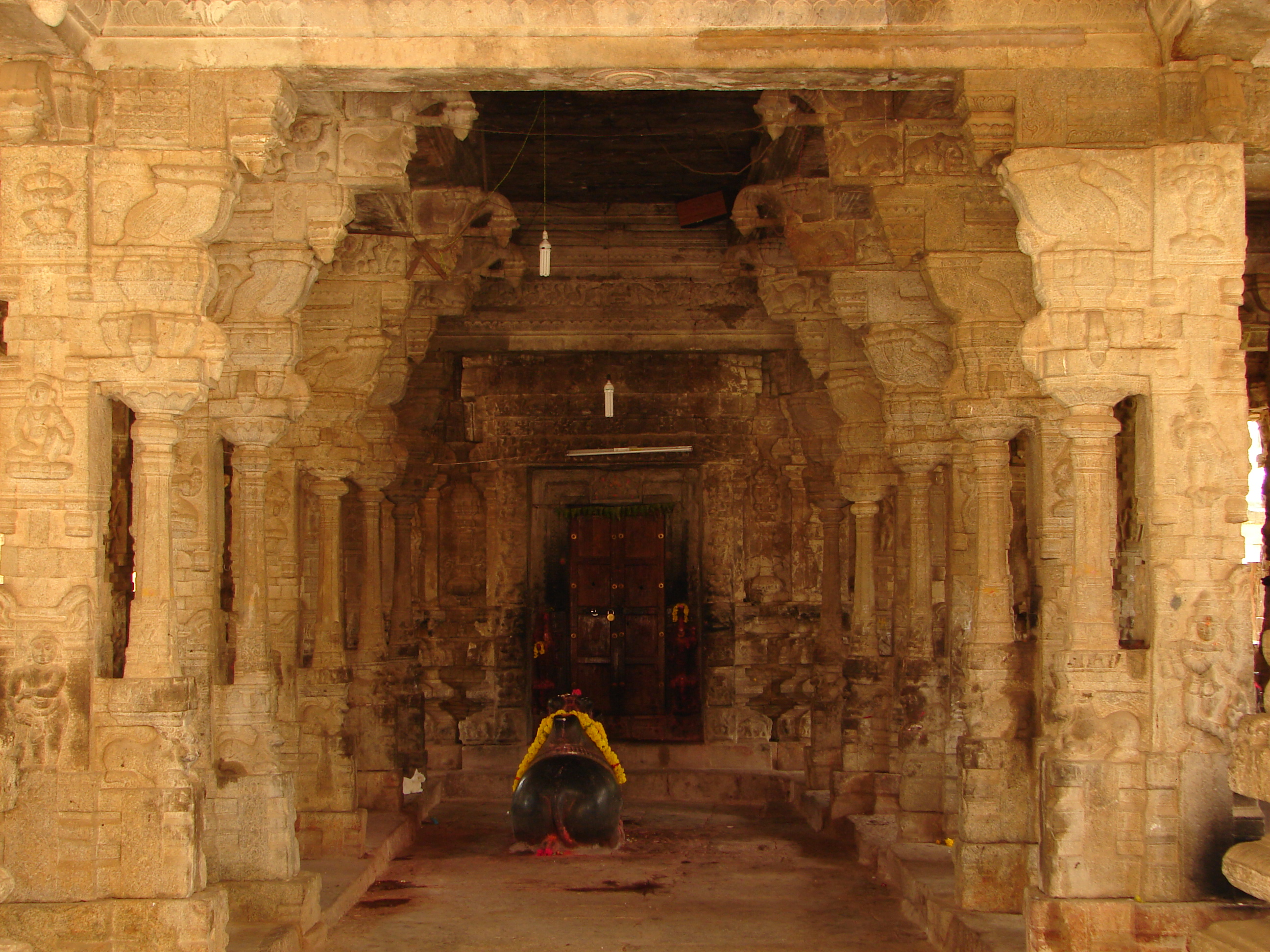 This photograph was taken by me at the Someshvara temple (also spelt Someshwara or Somesvara) in Kolar, Kolar district, Karnataka state, India. The Someshvara temple is an ornate example of early 14th century architecture of the Vijayanagara Empire. The entrance to the main hall is flanked by massive pillars.